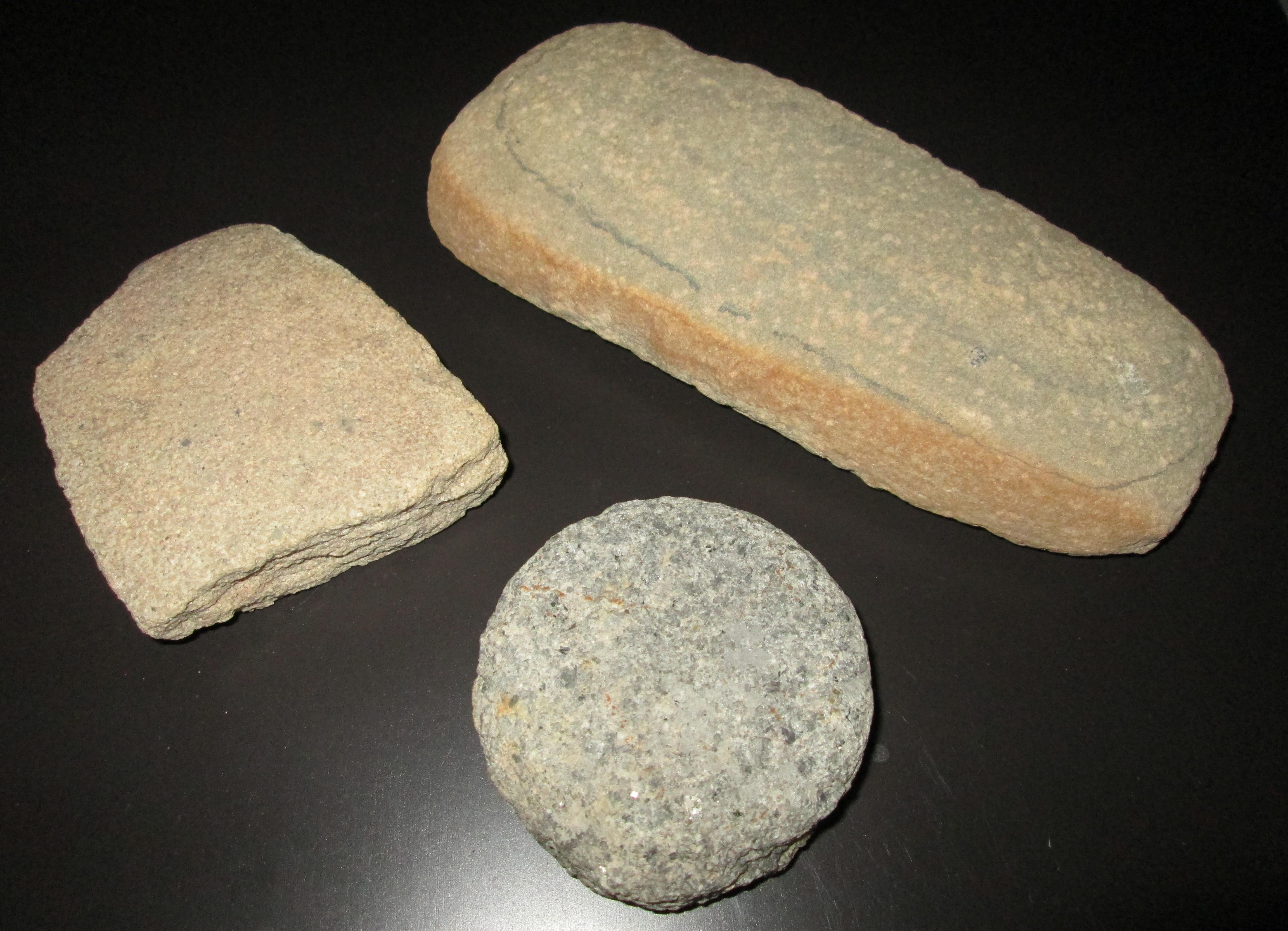 Native American manos from Arizona, including a broken, two-handed rectangular mano at left, a whole two-handed rectangular mano at right, and a circular one-handed mano at the bottom.